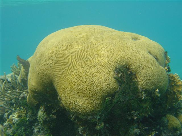 Brain coral (Diploria labyrinthiformis) — in the Hol Chan Marine Reserve, Belize Barrier Reef, Belize. An underwater photograph taken by Dlloyd using a digital camera in Belize.